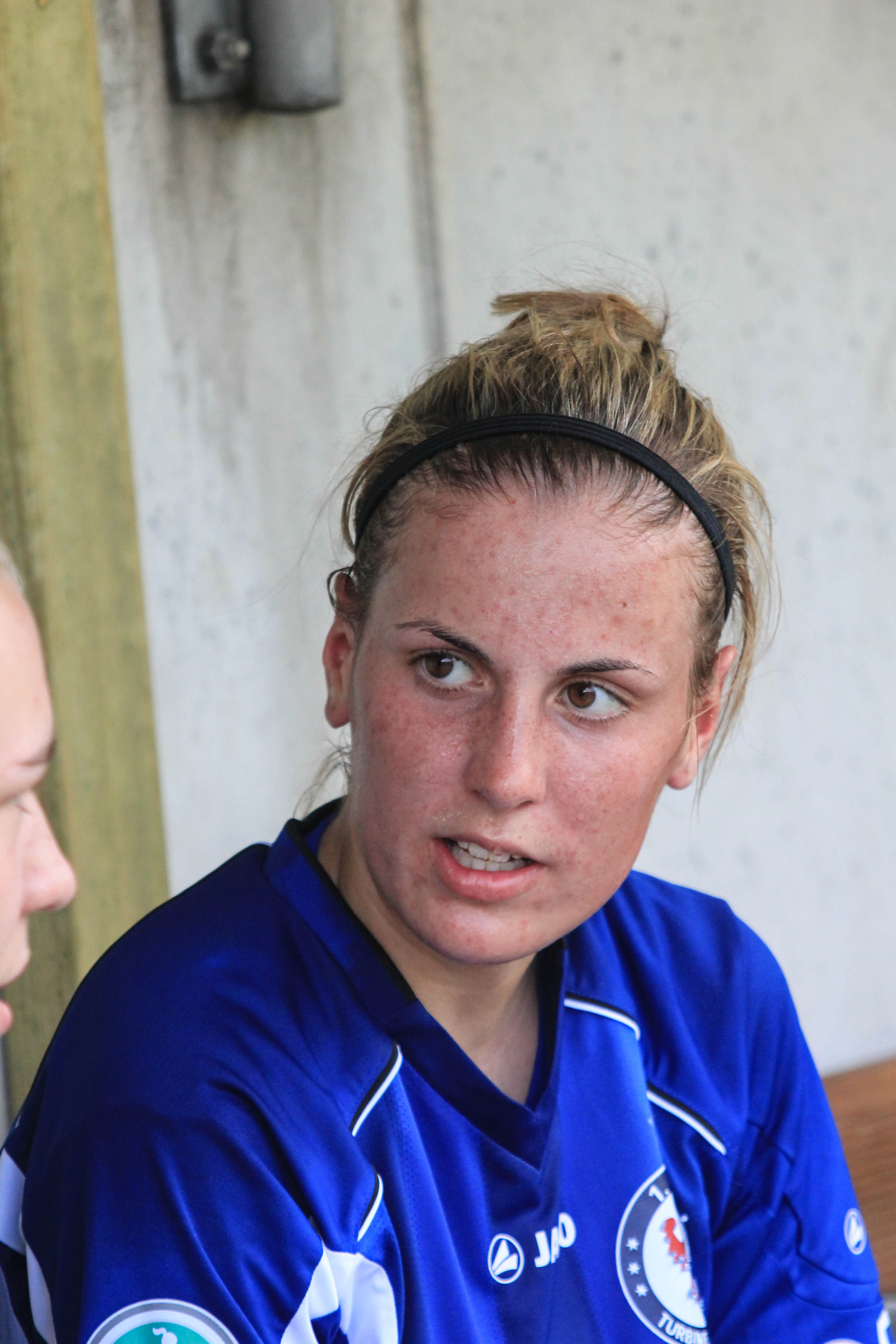 German footballer Jennifer Cramer, Turbine Potsdam